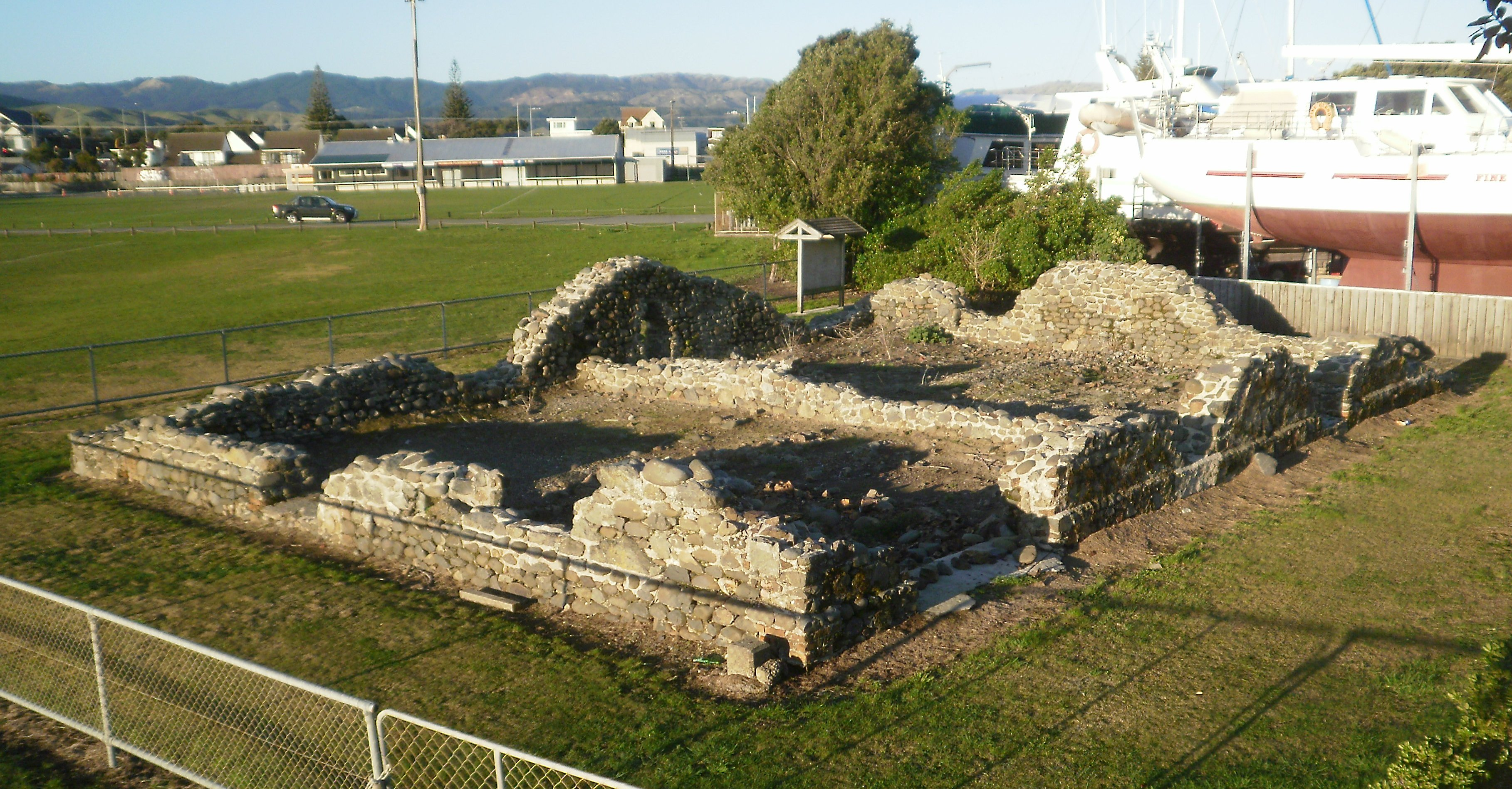 Paremata Barracks, in Ngati Toa Domain, Paremata, Wellington, New Zealand.